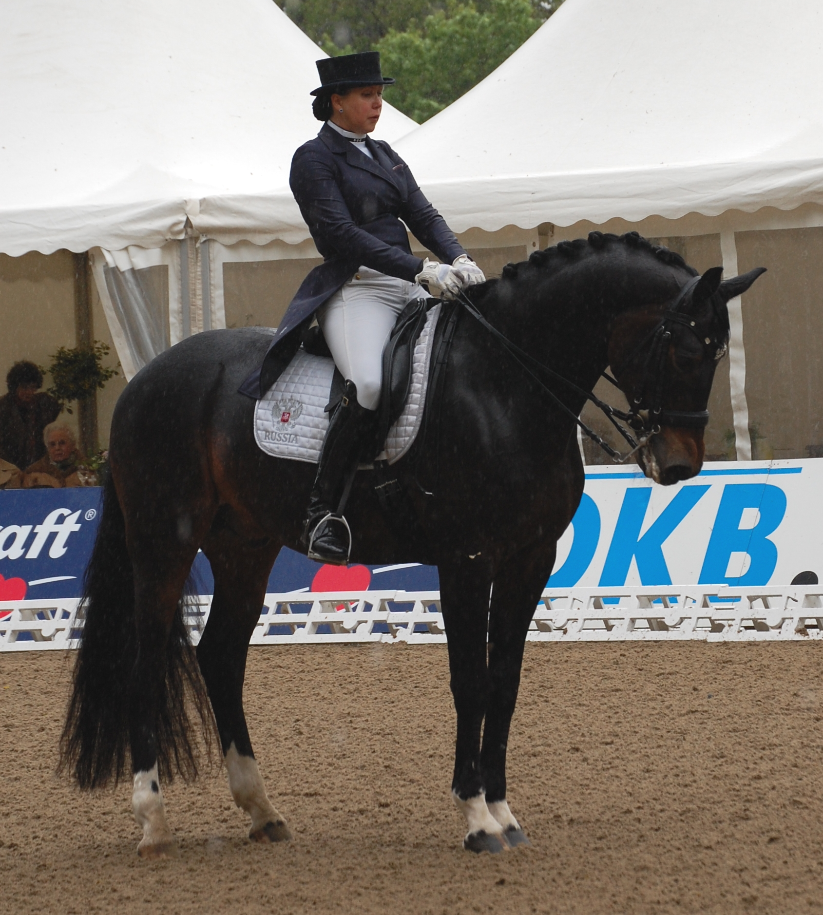 Inessa Merkulova and her horse Mister X, 57th German dressage derby, a dressage competition with a horse change. Hamburg 2015.